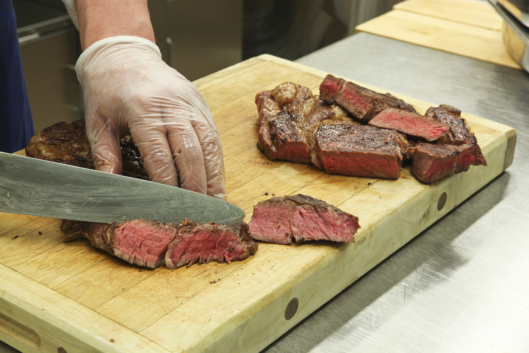 Chuck roll / sous vide